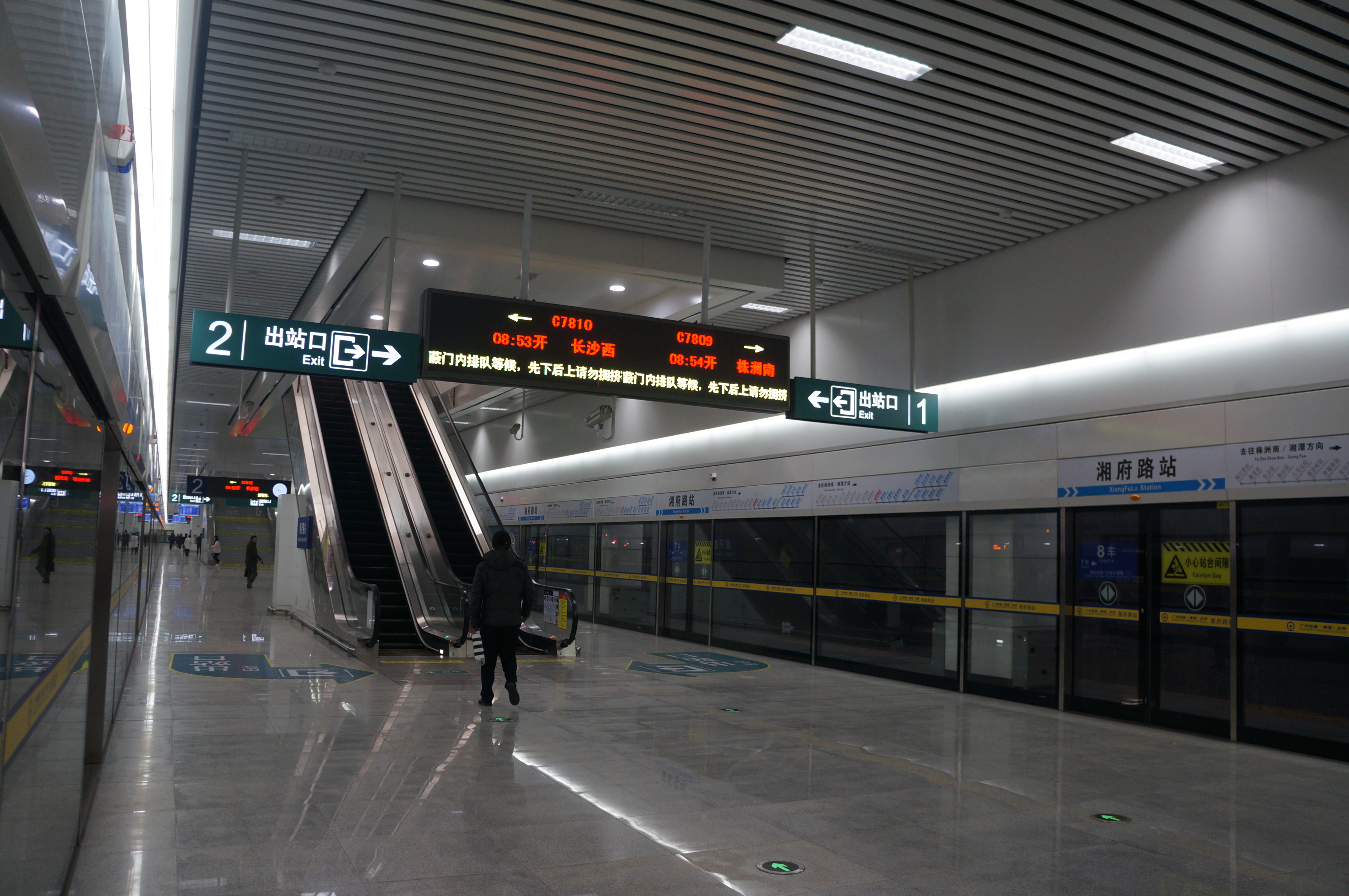 201712 Xiangfulu Station